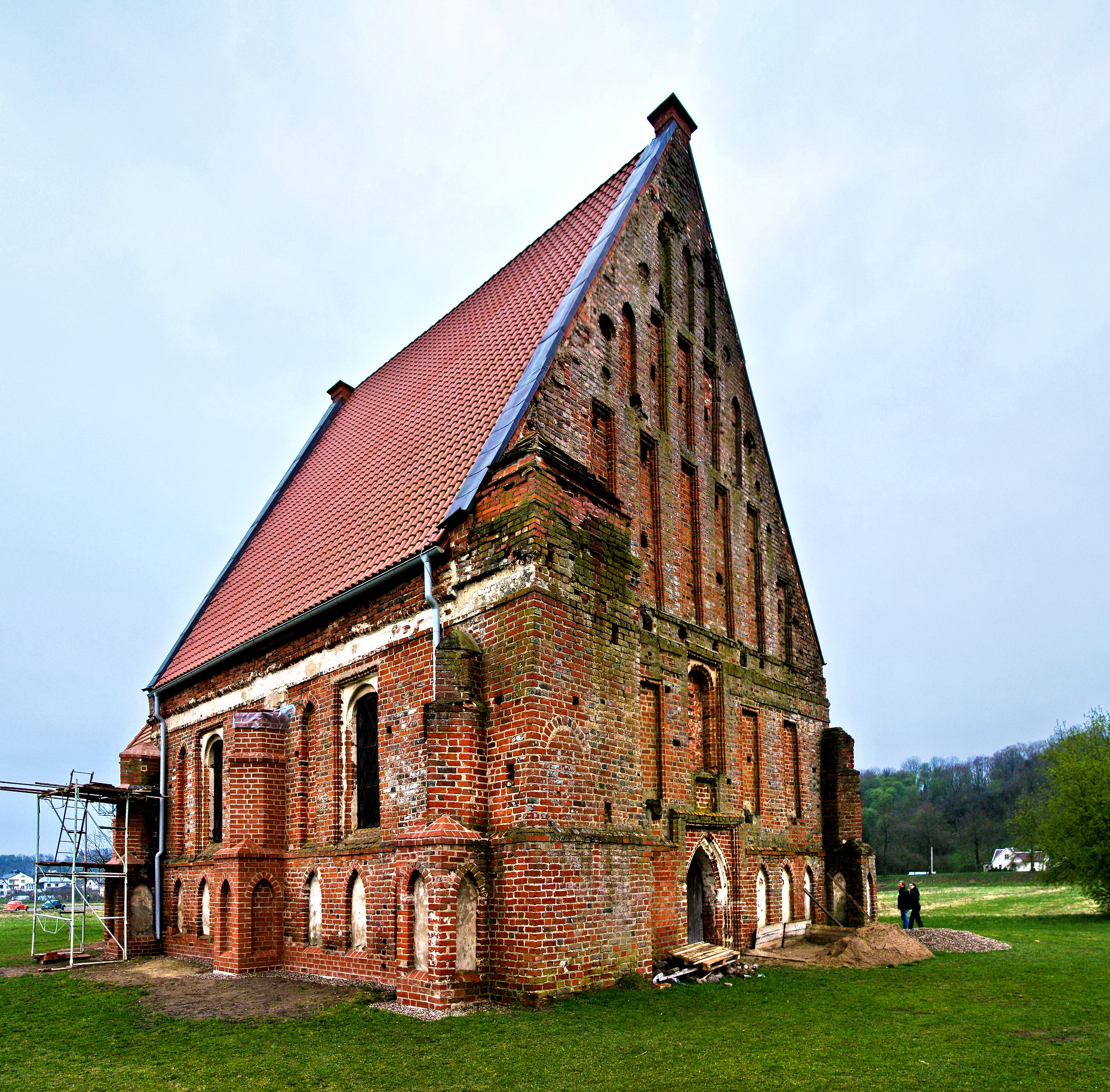 Zapyškis church, Lithuania